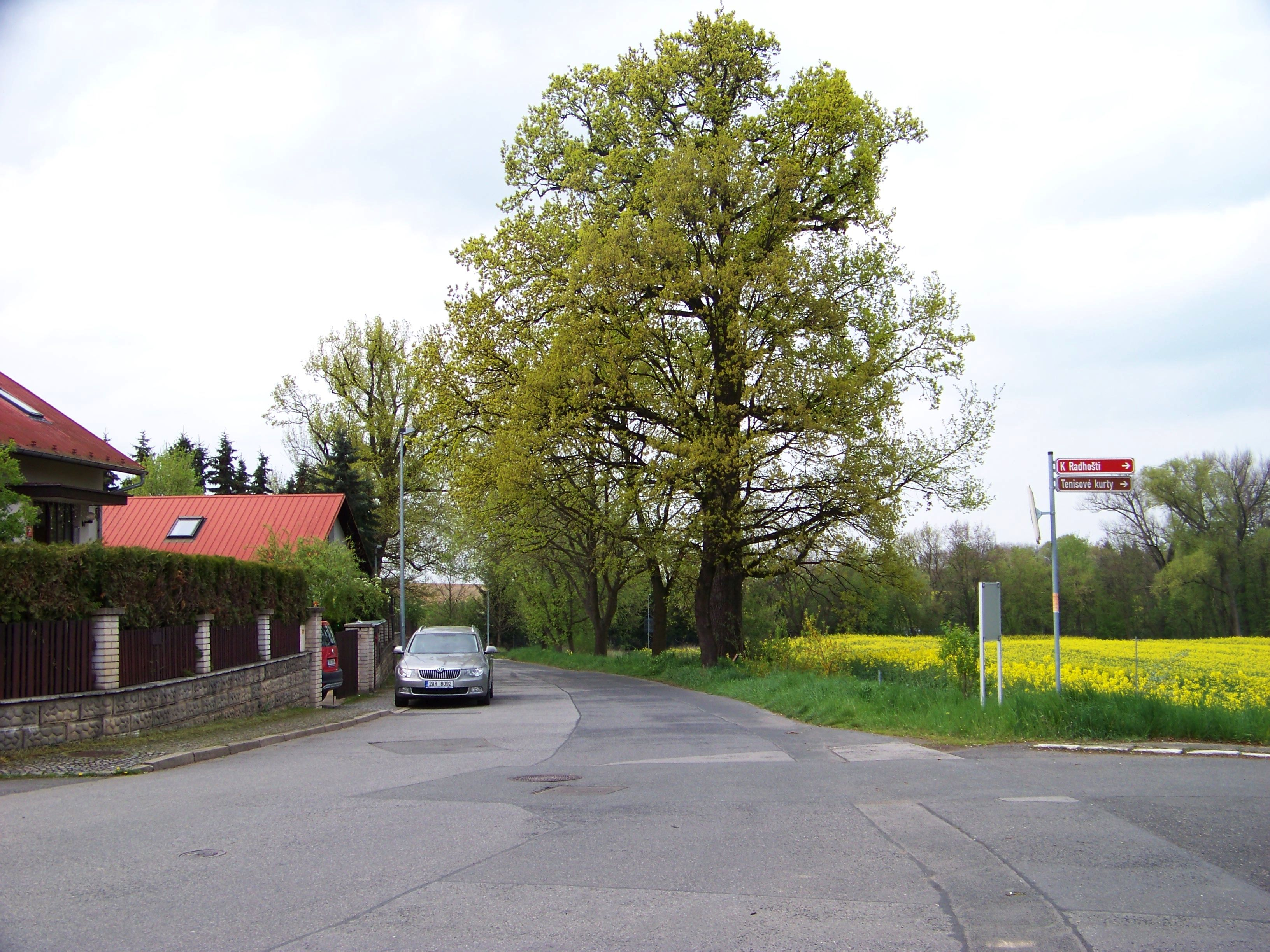 Prague-Nedvězí, Czech Republic. Pánkova street, memorable oaks.